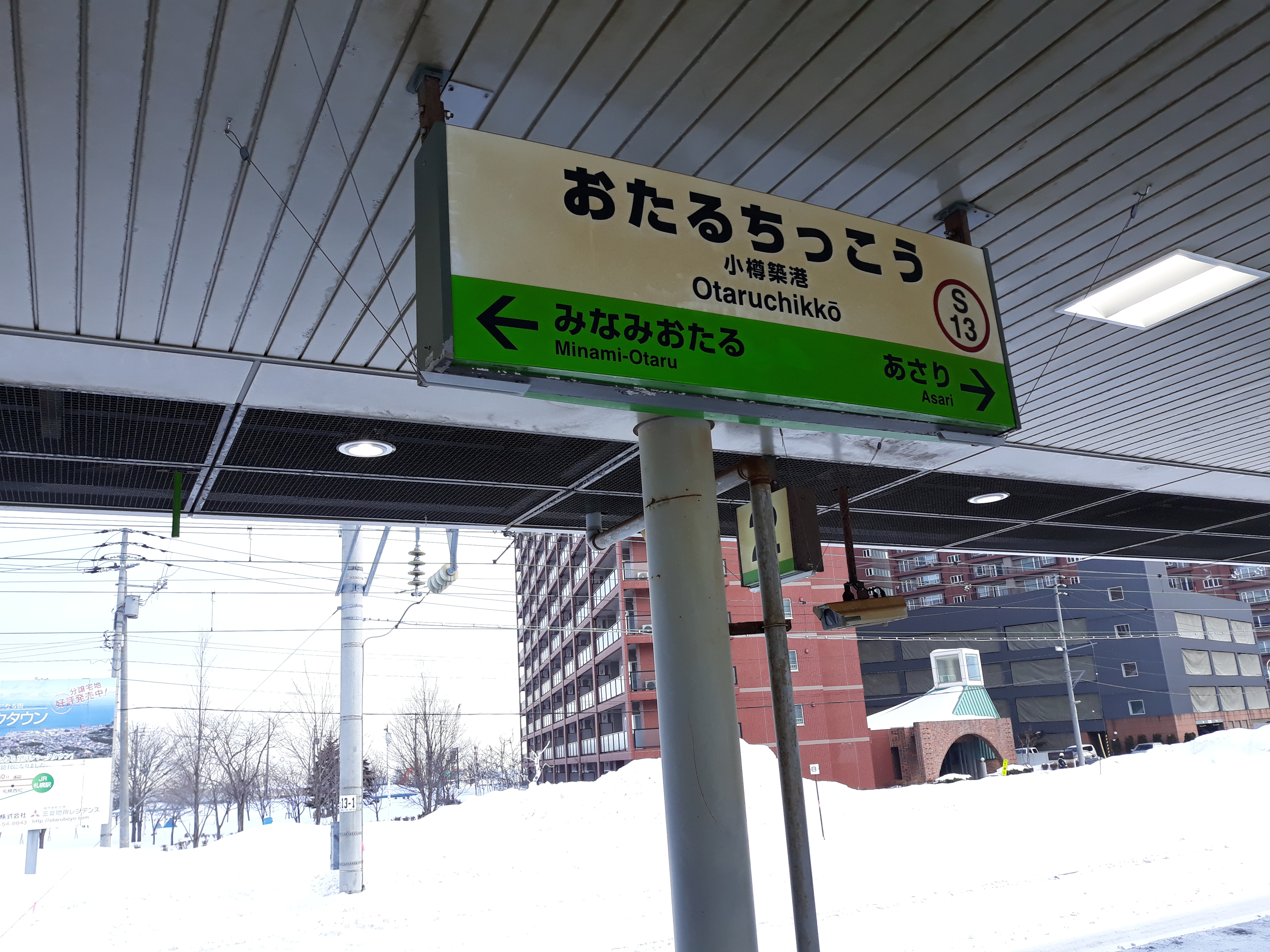 Pole Sign Hang on at Otaruchikko Station.